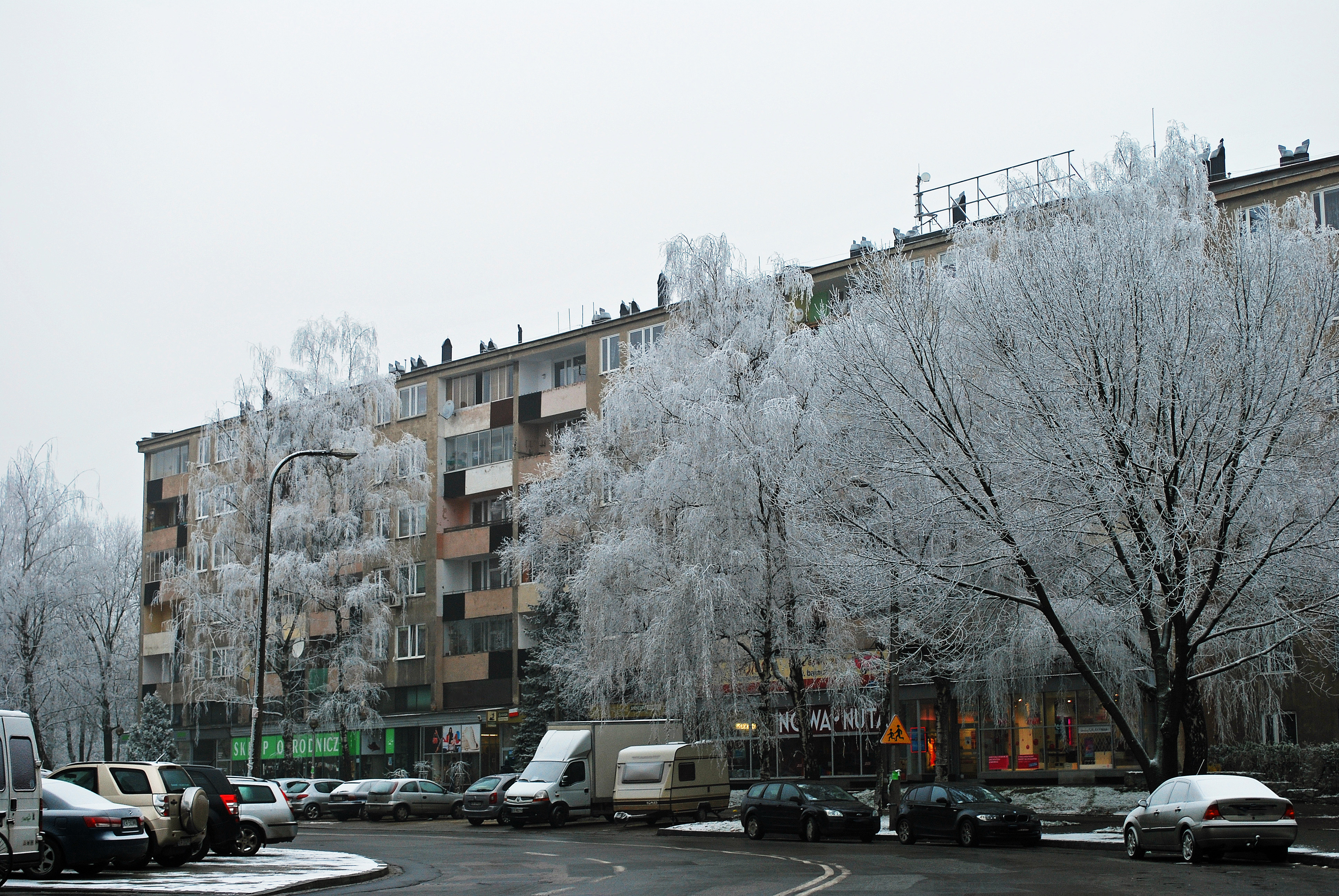 Block of flats (1957 by arch. Marta and Janusz Ingardens), 1 osiedle Szklane Domy, Nowa Huta, Krakow, Poland